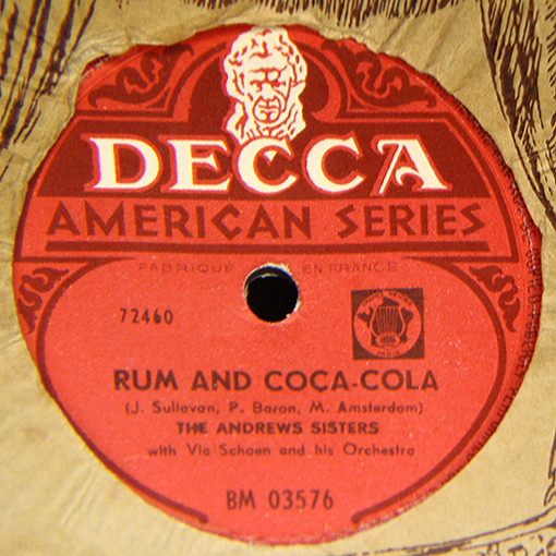 The Andrew Sisters. Rum and Coca-Cola.